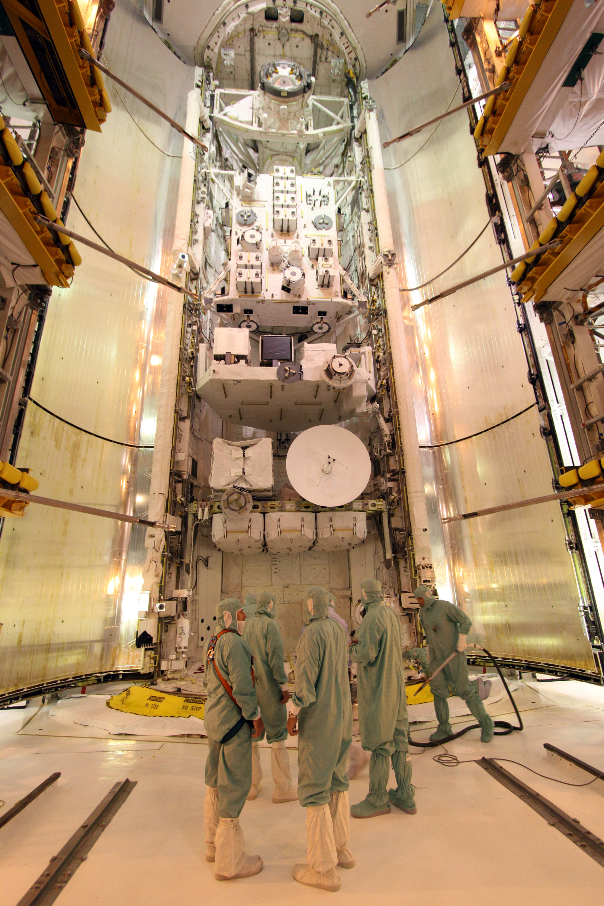 On Launch Pad 39A at NASA's Kennedy Space Center in Florida, workers ensure smooth closure of space shuttle Endeavour's payload bay doors.